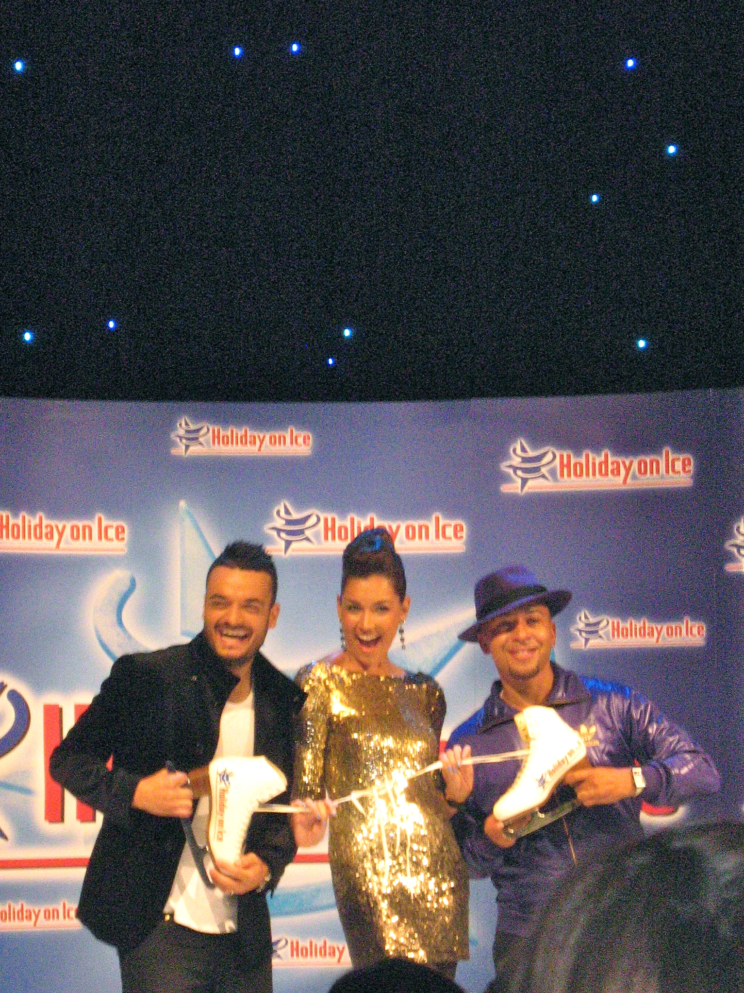 Jana Ina, Giovanni Zarrella and Lou Bega